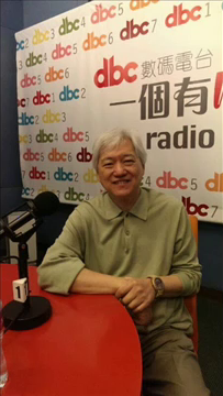 Joseph Tung Yao-chung, former Executive Director of Travel Industry Council of Hong Kong (TIC) 粵語: 董耀中，時任香港旅遊業議會總幹事。